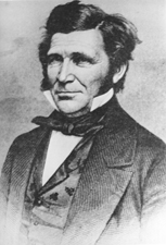 William Crosby Dawson, a member of the United States Senate from Georgia